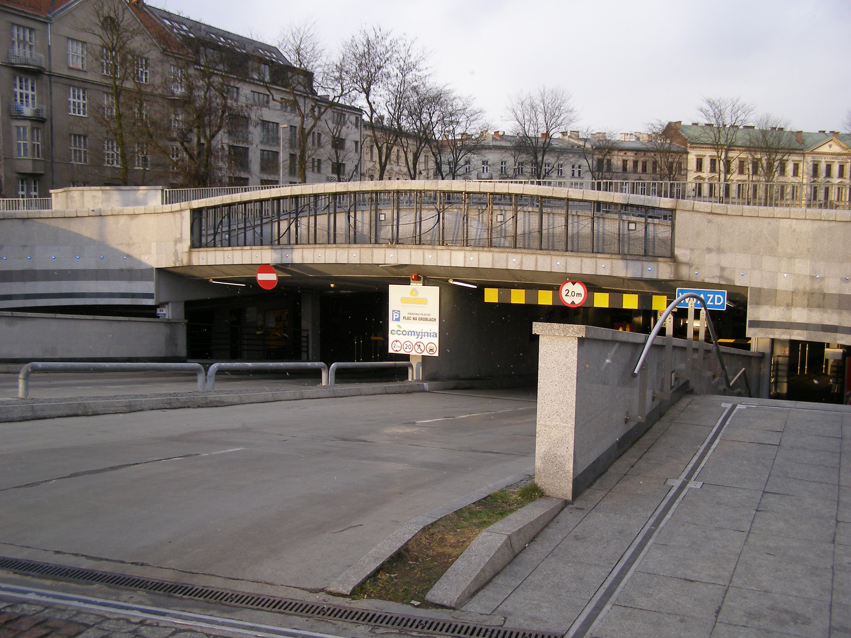 Kraków - entrance to the underground parking under Na Groblach sq.